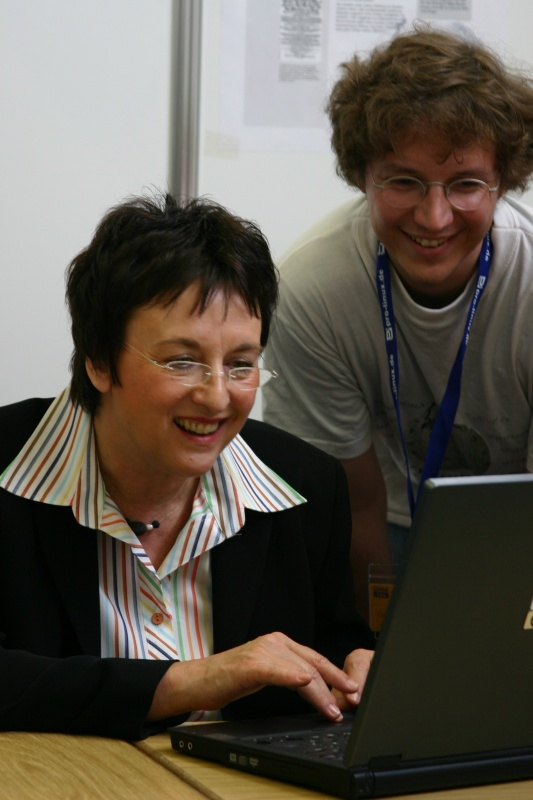 Federal Minister of Justice (Germany) Brigitte Zypries at the Wikipedia booth at LinuxTag 2006